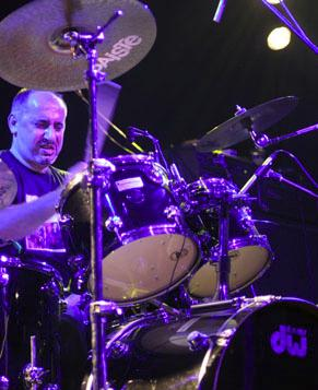 Taken from a live performance of What's The Buzz? with Sotiris Lagonikas on drums